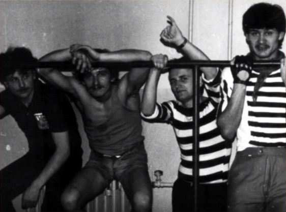 The band Apex from Prudnik.